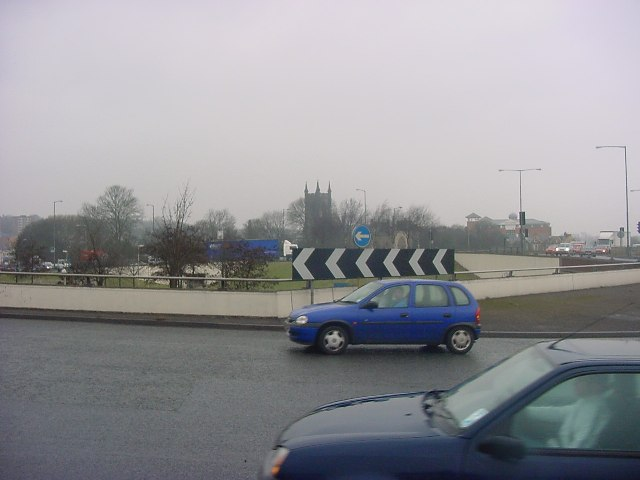 City Road Roundabout. This is the junction of the A500 and the A5007 in Stoke. It has since been completely rebuilt. In the distance can be seen St. Peter's Church and further to the right, Stoke Civic Centre.